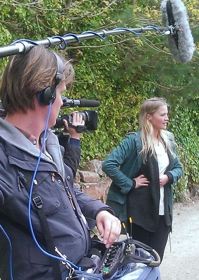 Geraldine Kemper during recording for Spuiten en Slikken in Apenheul Primate Park.